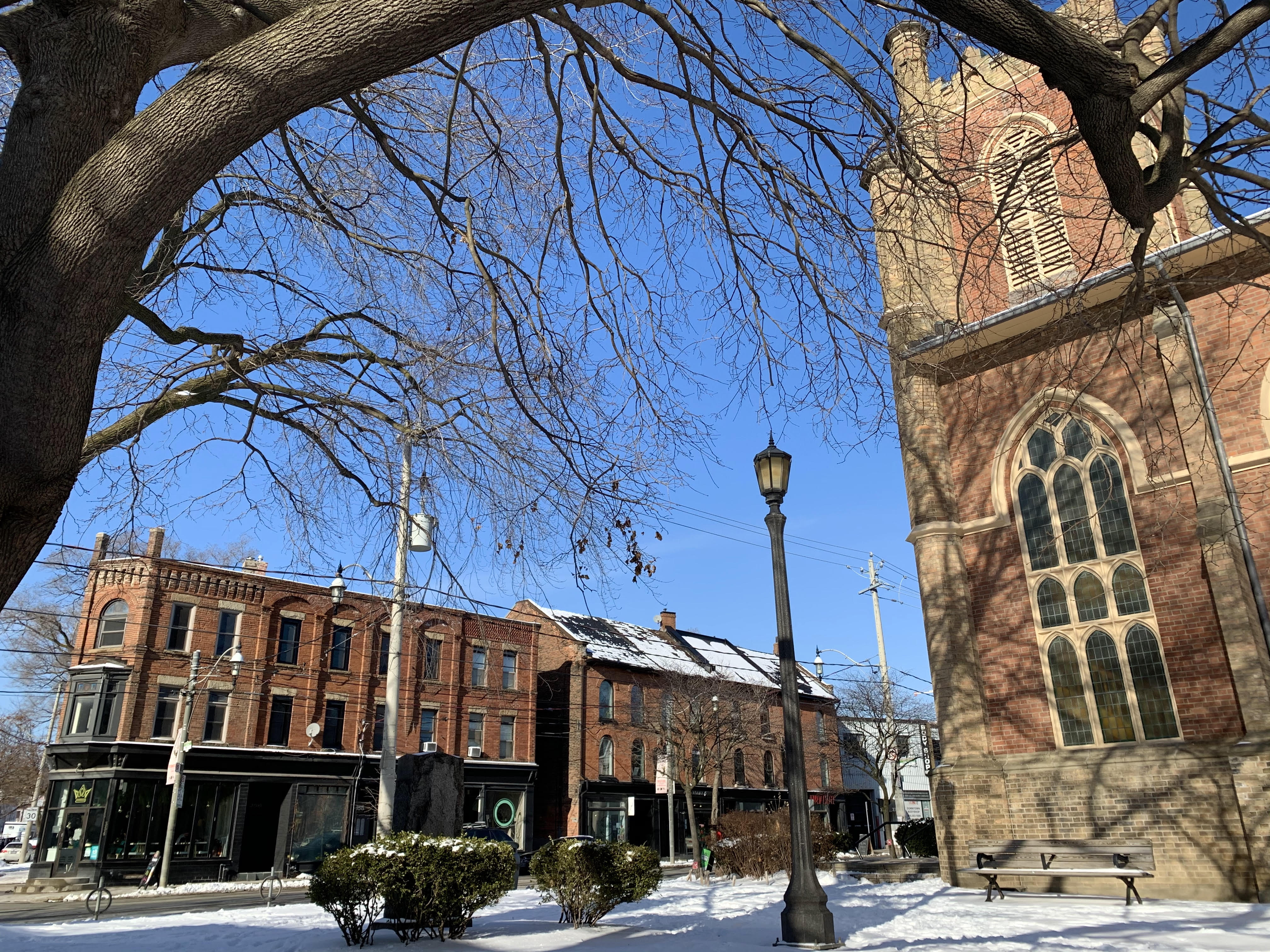 King Street East and historicl Little Trinity Church, Corktown.